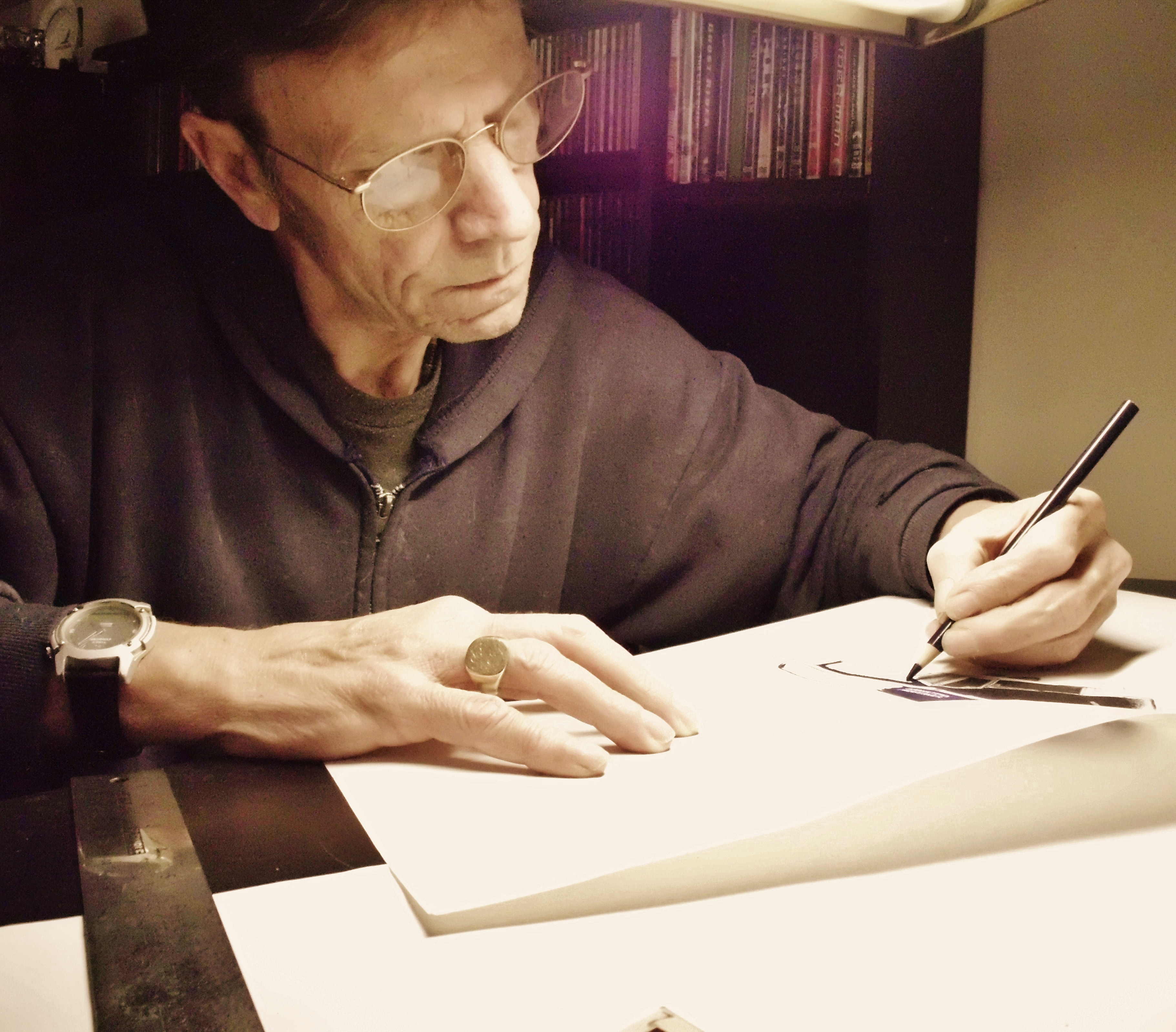 Aviation artist Marc Y. Chenevert, drawing a Piedmont Airlines Boeing 727 at his studio in Asheville, North Carolina without blue filter